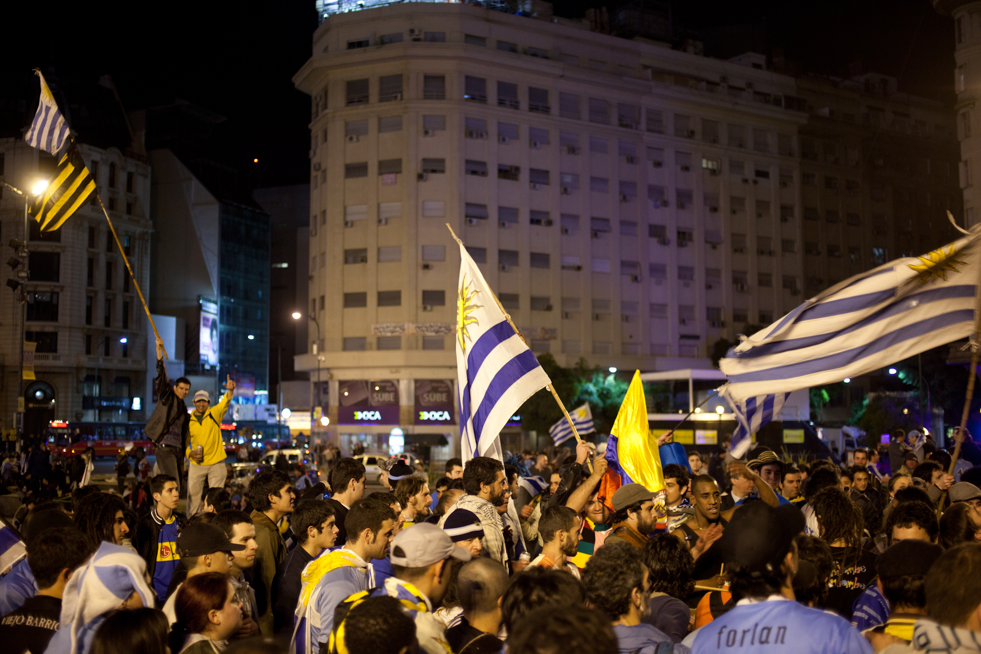 Uruguay fans celebrate the 2011 Copa America title in the 9 de Julio avenue of Buenos Aires.